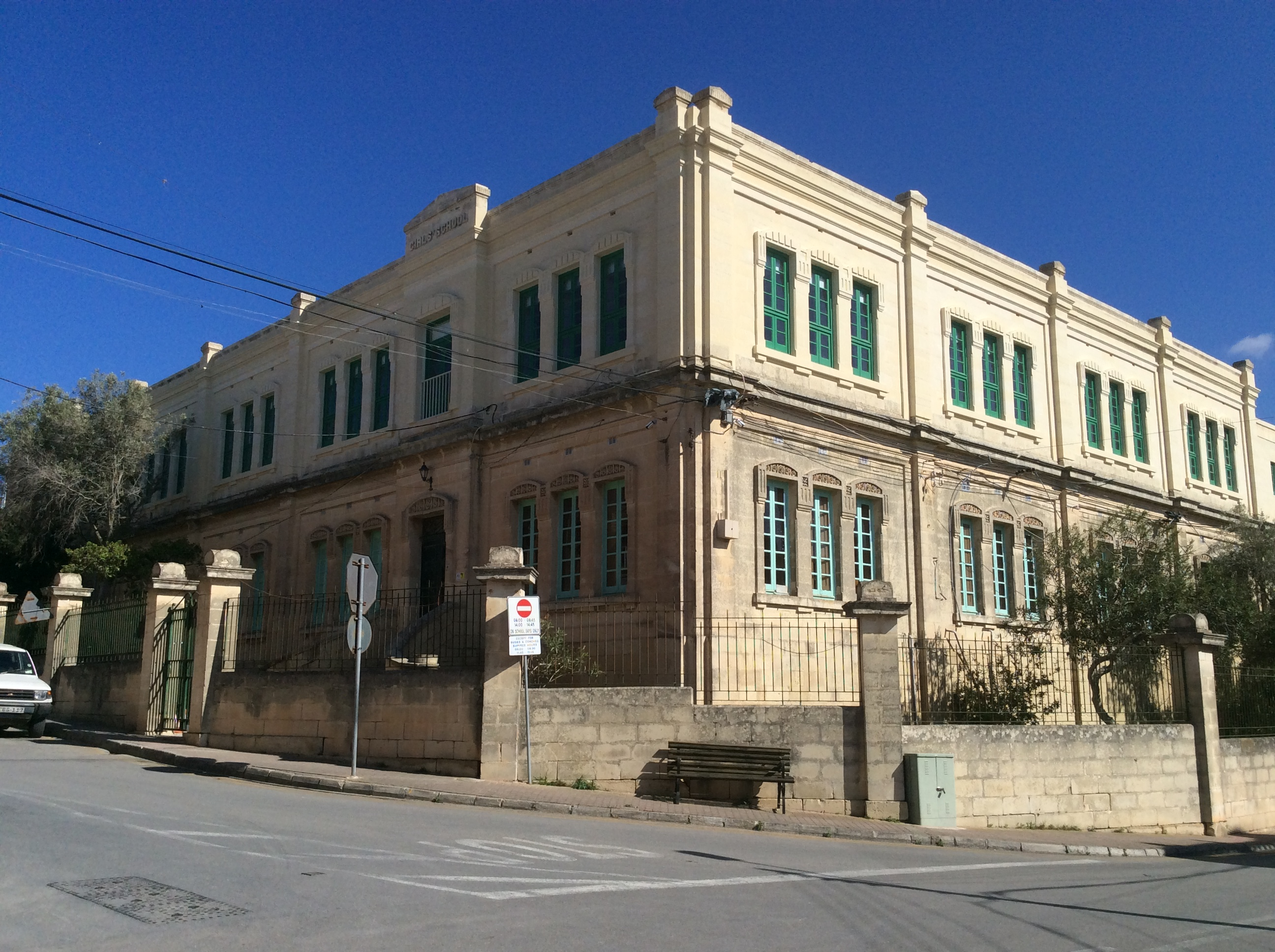 Gharghur niches, reliefs, buildings and lines